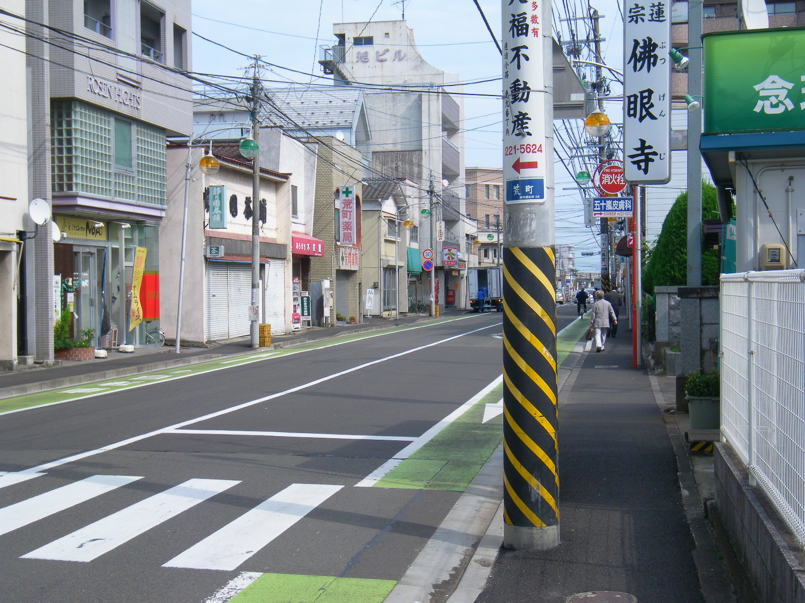 Aramachi town view in Taihaku ward, Sendai. Miygai prefecture, Japan.